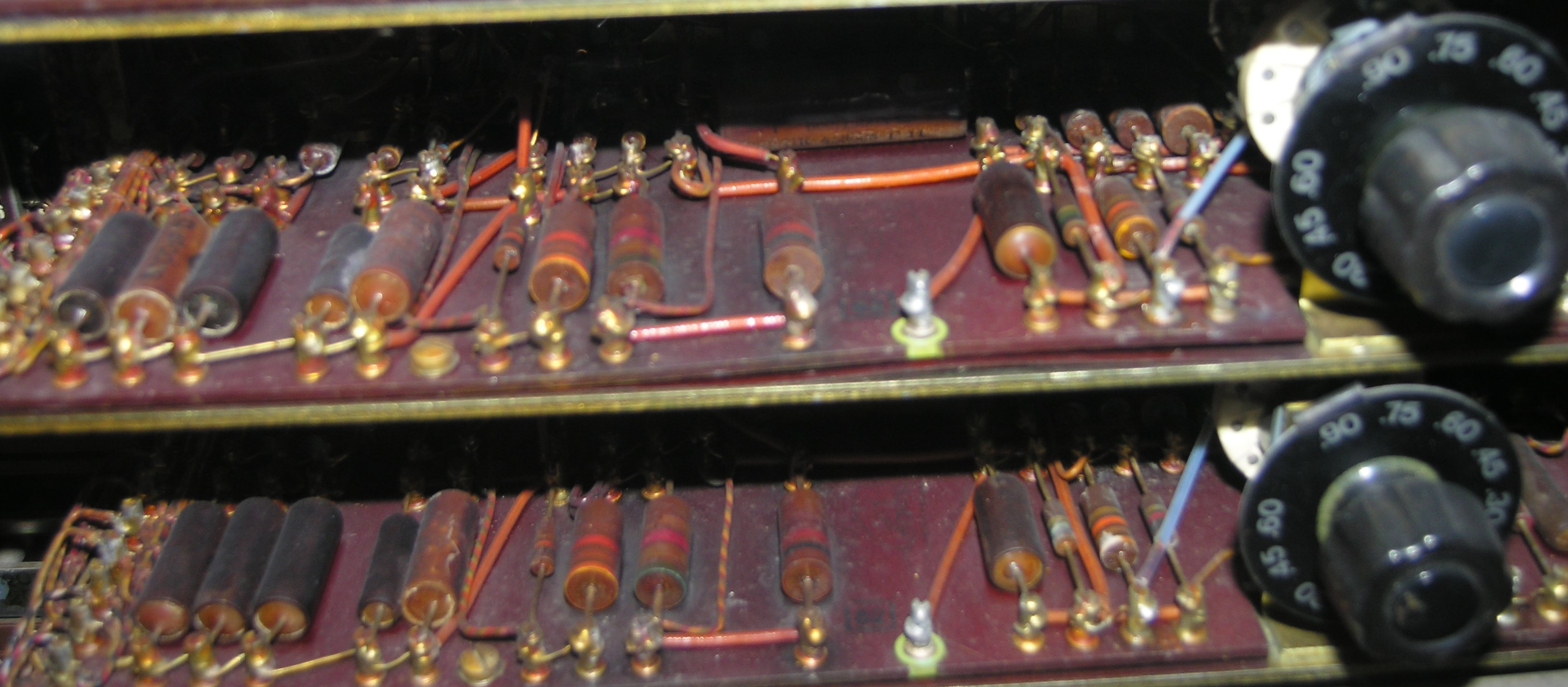 The point-to-point construction of the military radio equipment. Photographed in the museum of the military aviation, Dubendorf, by Audrius Meskauskas (Audriusa 17:32, 10 February 2006 (UTC)). The was no "no photos" sign displayed in that museum (just no food and no dogs), and the picture was taken very openly.